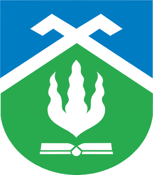 Coat of arms of Lüganuse Parish, Ida-Viru County, Estonia.